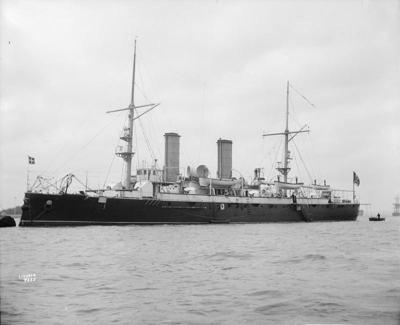 Photograph of Italian cruiser Liguria.